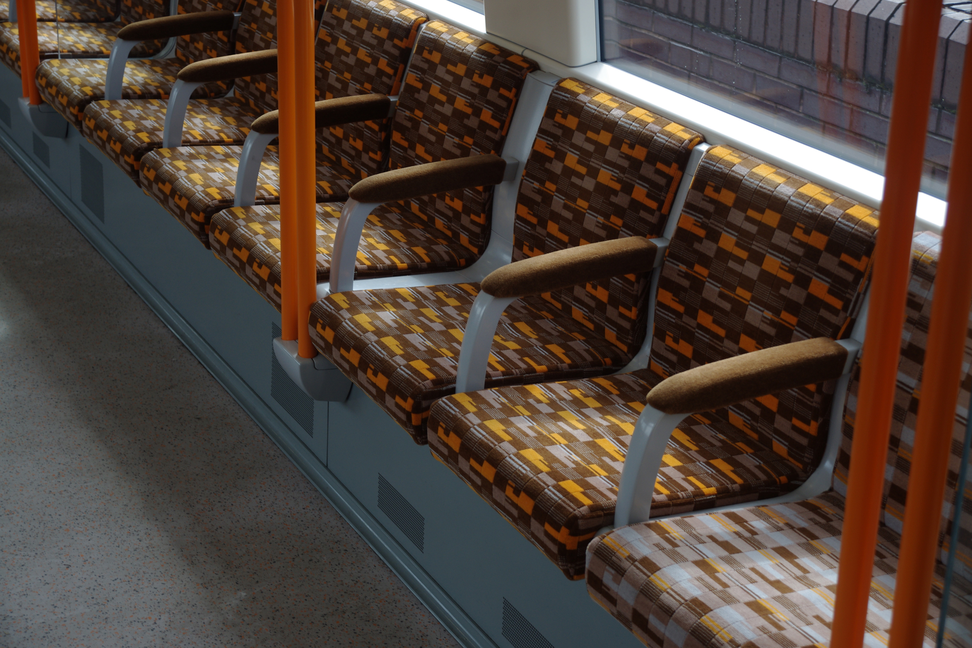 Interior of London Overground Capitalstar EMU 378210 at Watford Junction. The different colours on the rightmost seat indicates its status as a priority seat.